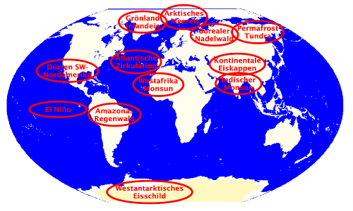 tipping points of the climate system